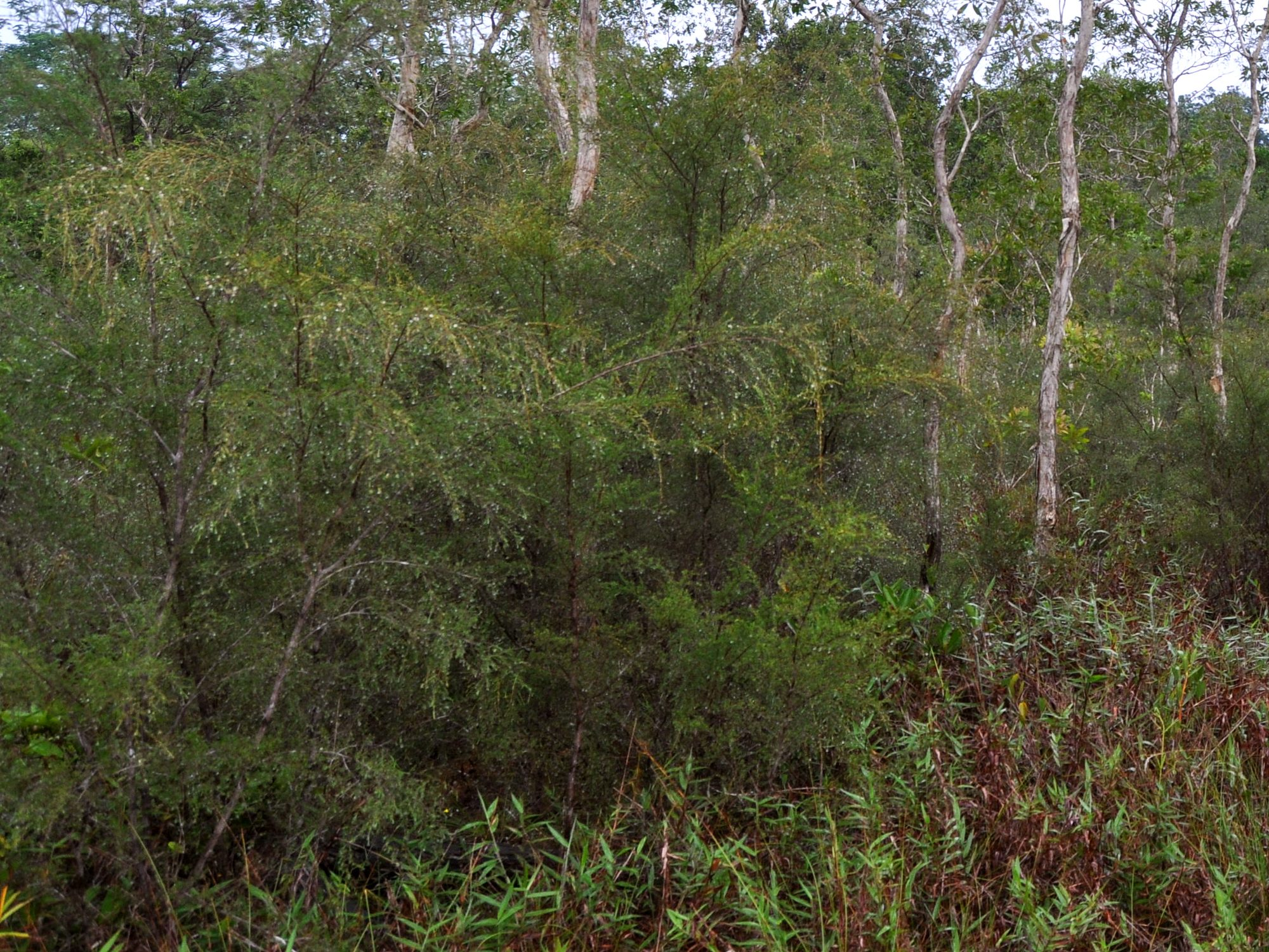 Baeckea frutescens shrub at degraded heath forest. From Belitong, South Sumatra, Indonesia.